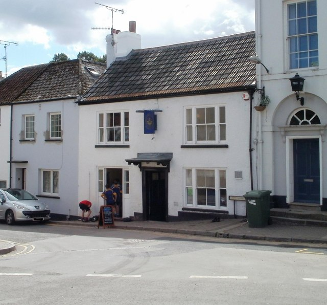 was the Druids Head - its now Grade II listed RFC HQ